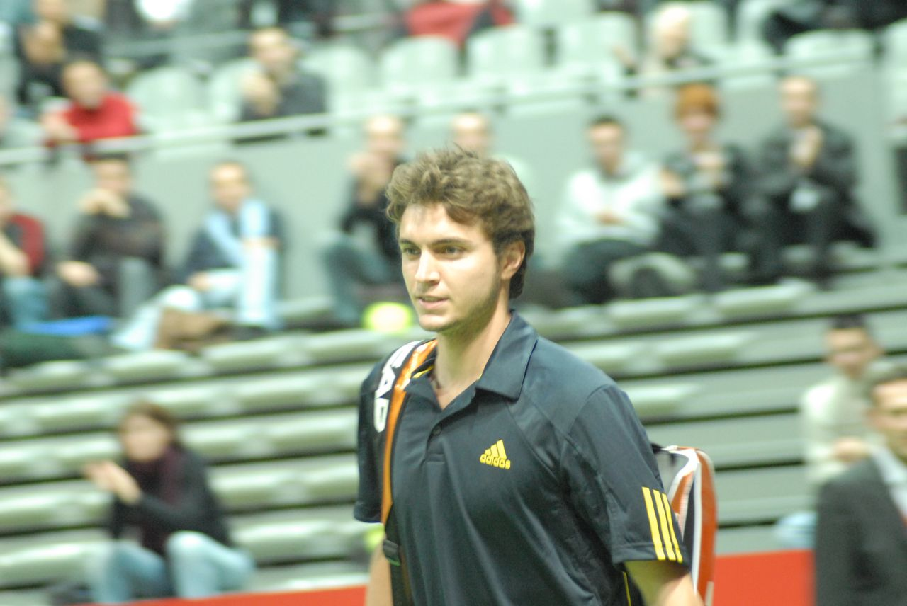 Gilles Simon at the 2008 Masters France tennis exhibition